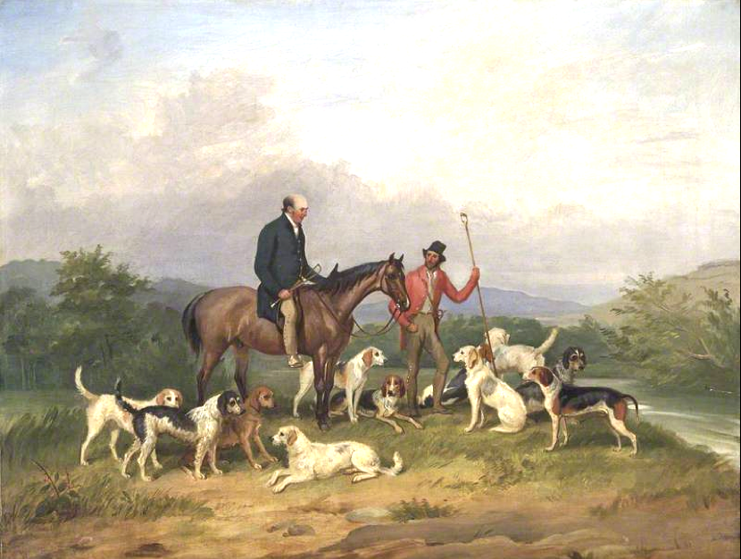 John Lloyd (1771–1829) on horseback is shown with George Thomas (1786–1859) who holds a horn and otter hunting pole. George Thomas is best known for his mock heroic poems on local events, including ‘The Otter Hunt and the Death of a Roman, a Well-Known Hound’, published in 1817. The poem describes otter hunting in the Camlad, a tributary which flows into the Severn. Lloyd lived at the Court, Abermule. Frazer Thomas. “George Thomas of Llandyssil, 1786–1859”. The Montgomeryshire Collectons, Vol 97, 2009, 101-121